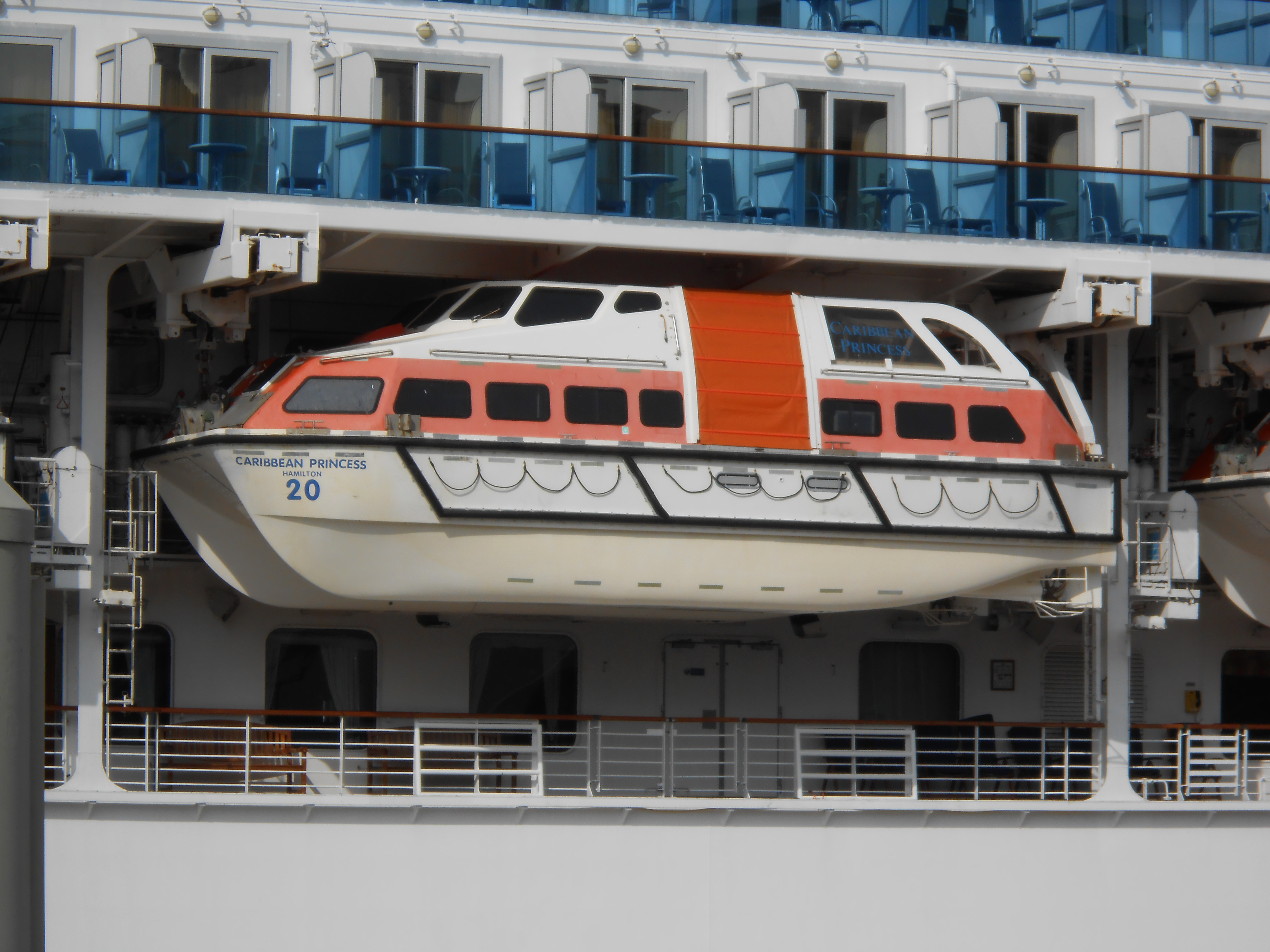 Lifeboat on the Caribbean Princess at Liverpool cruise terminal, England.